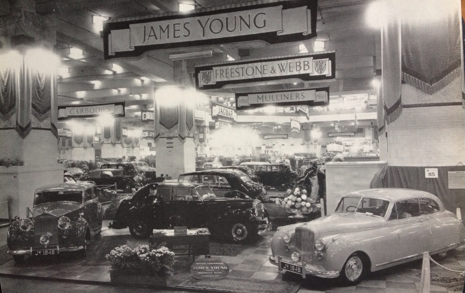 James Young stand at the 1948 Earls Court Motor Show. Bentley MK VI (#B495CD) on the right.